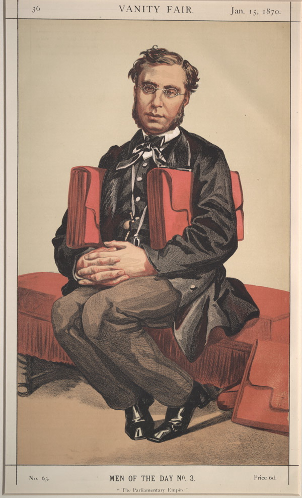 Men of the Day No.3: Caricature of M Olivier Émile Ollivier. Caption reads "The Parliamentary Empire".